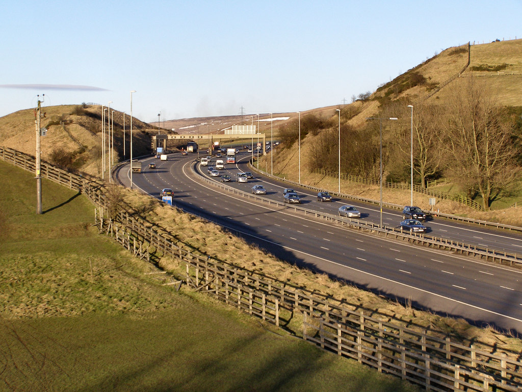 M62 Eastbound The M62 Motorway eastbound towards Leeds.Viewed from Tunshill Lane